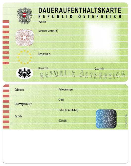 Permanent residence card (Austria)